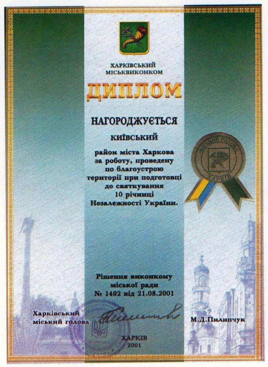 Diplom Kharkov 2001